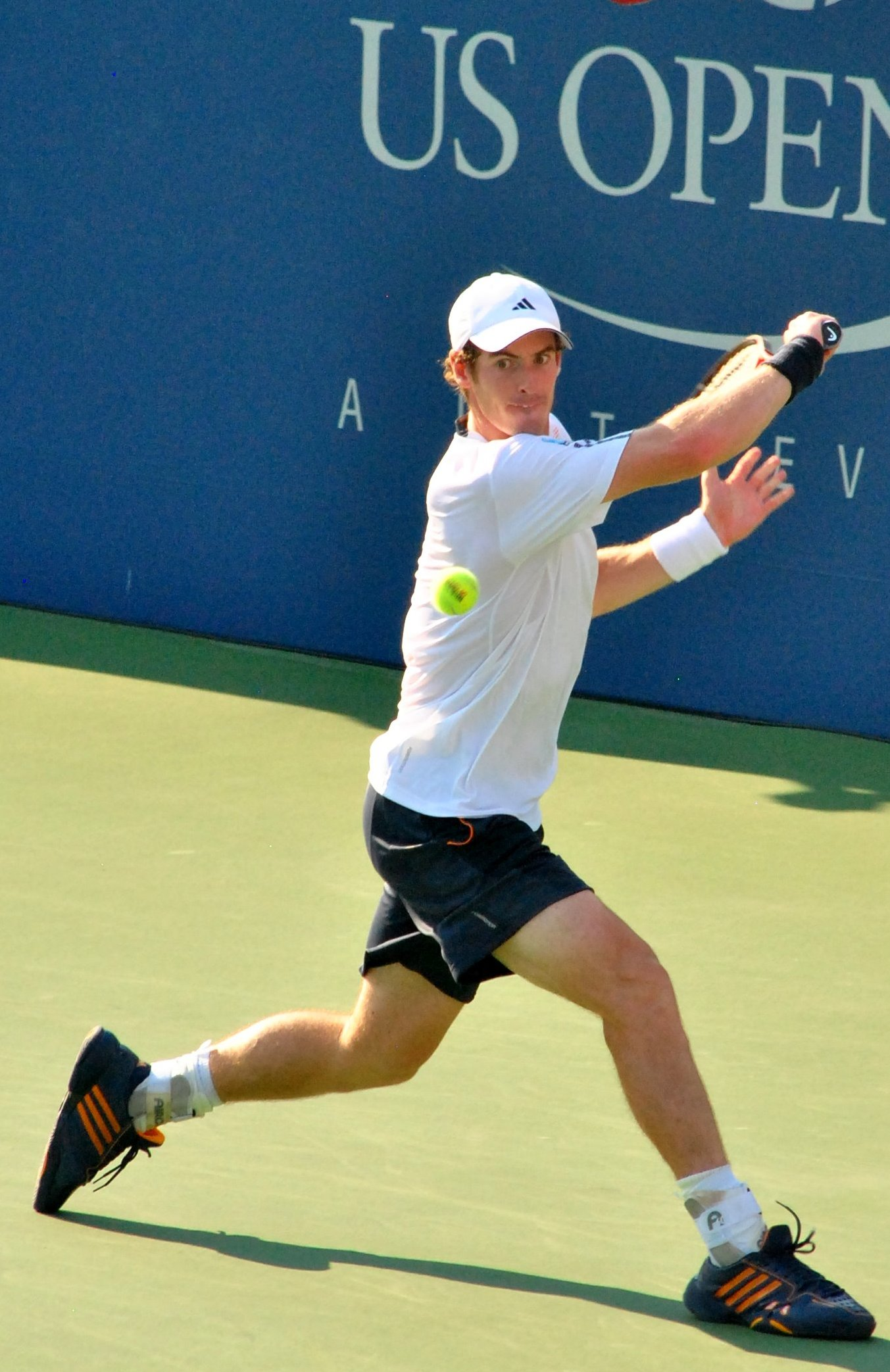 Andy Murray at the 2012 US Open